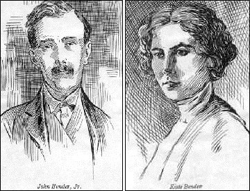 The Benders in Kansas (AKA Bloody Benders)